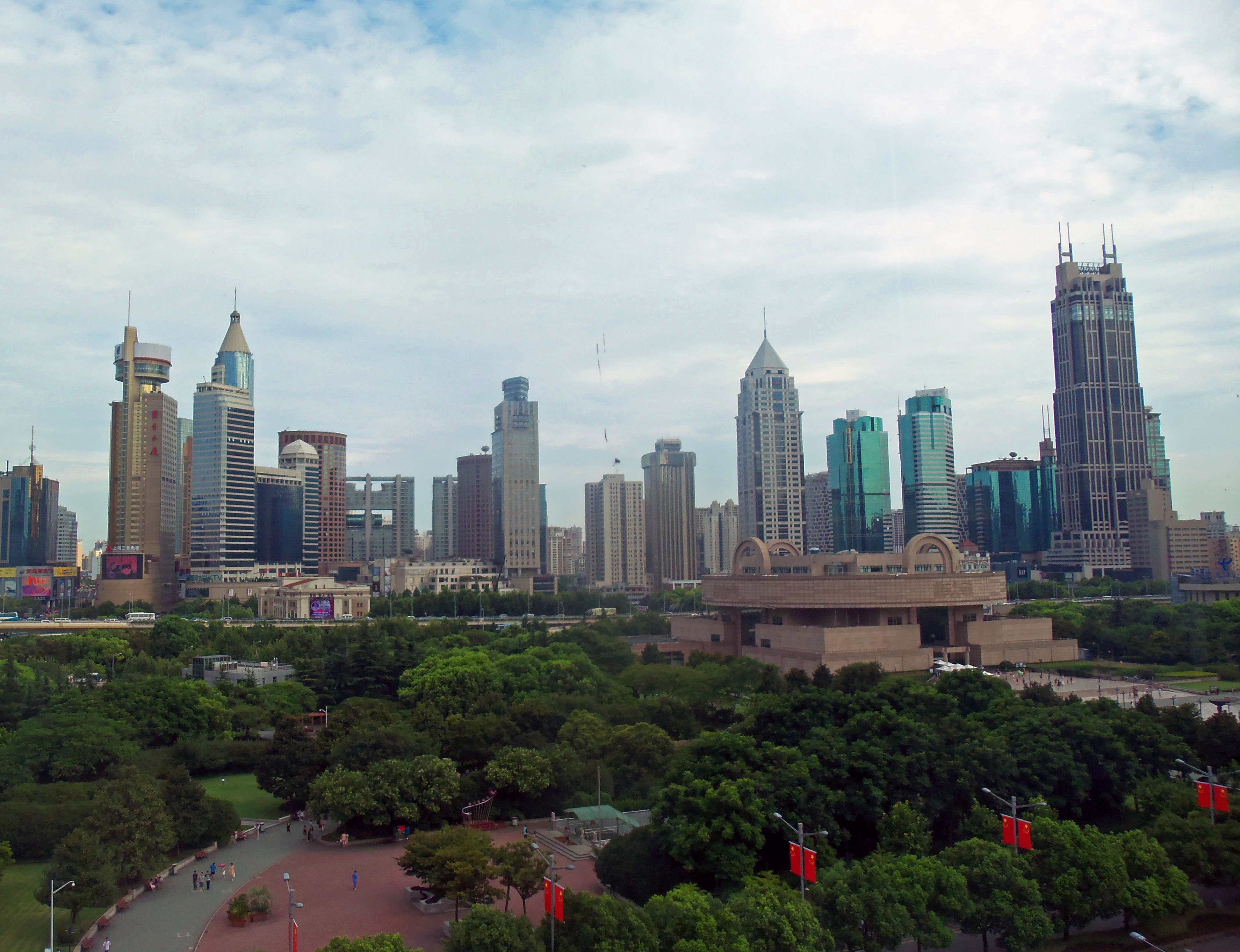 Looking south over People's Park from the fifth floor of the Shanghai Urban Planning Exhibition Center